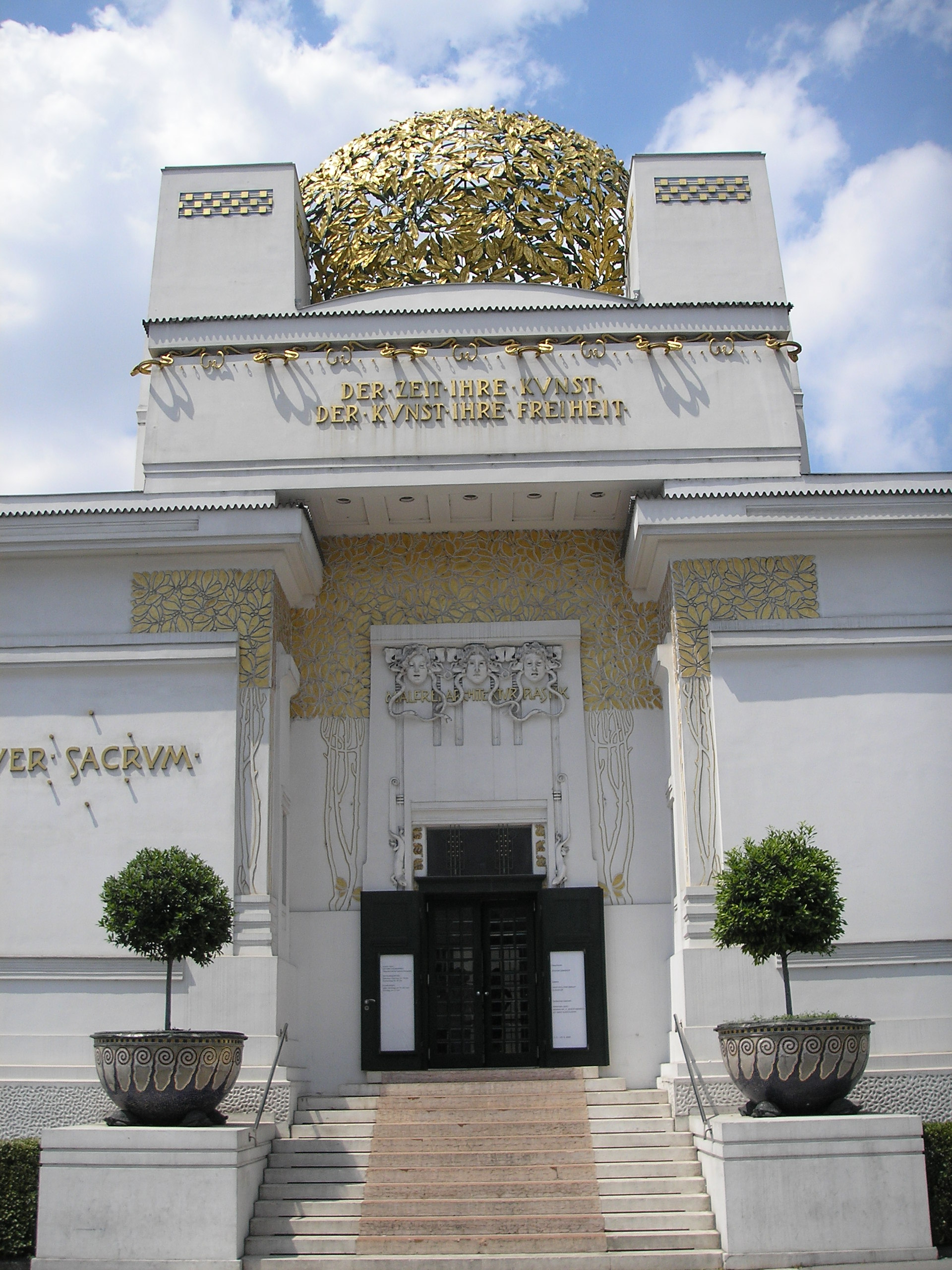 Austria, Vienna, Secession hall